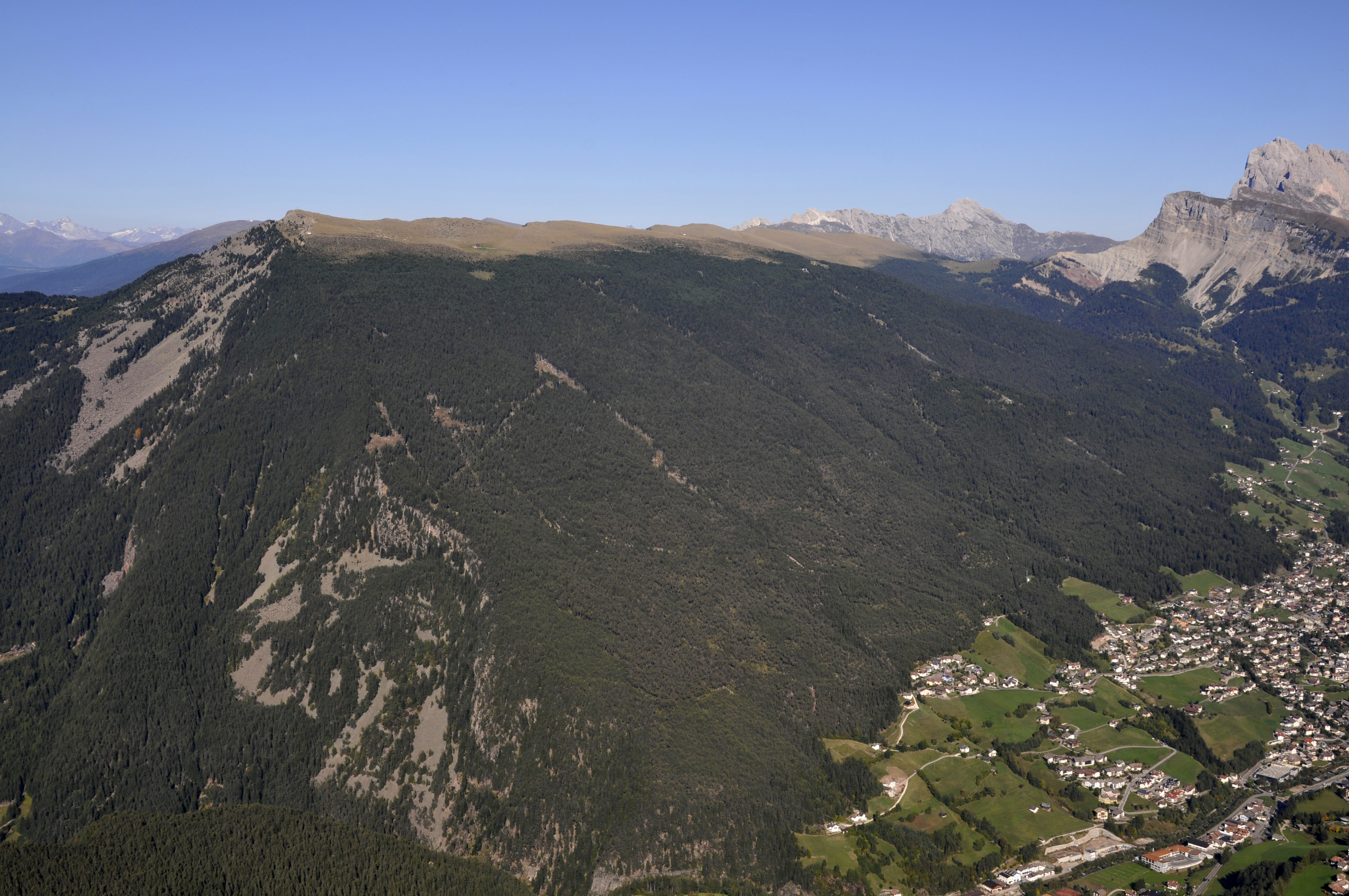 Resciesa inUrtijëi, in Val Gardena.